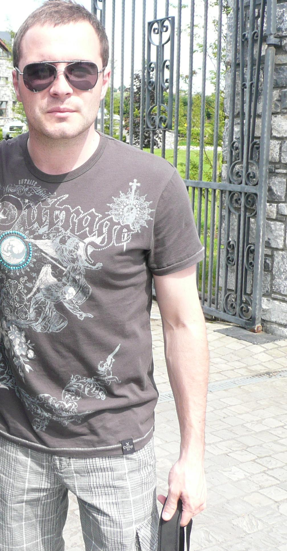 Shane, Member of Westlife, in Sligo (Ireland)